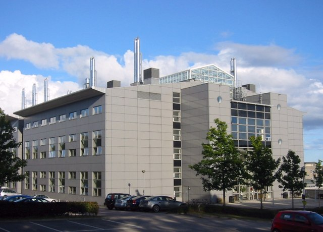 Institute of Medical Sciences, University of Aberdeen, Foresterhill